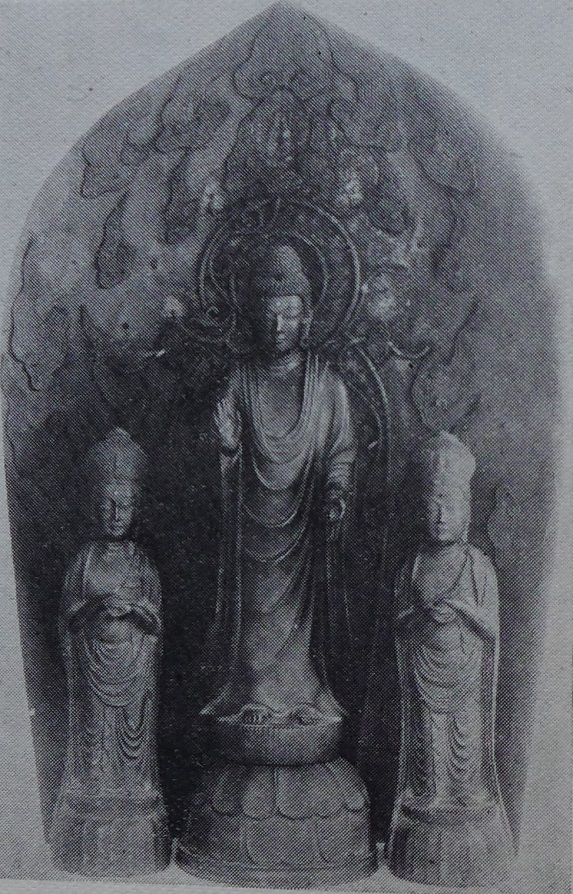 Amidabha Buddha Trinity, Bronze gilt, center 42.2cm height, left attendants: 33.2cm, right attendant:32.8cm ACE1271/10/19(lunar calendar), Enkakuji Temple, Kamakura, Japan